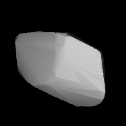 3D convex shape model of 1366 Piccolo, computed using light curve inversion techniques. J. Hanuš, J. Ďurech, M. Brož, B. D. Warner (June 2011). "A study of asteroid pole-latitude distribution based on an extended set of shape models derived by the lightcurve inversion method". Astronomy and Astrophysics 530: A134. ISSN 0004-6361. arXiv